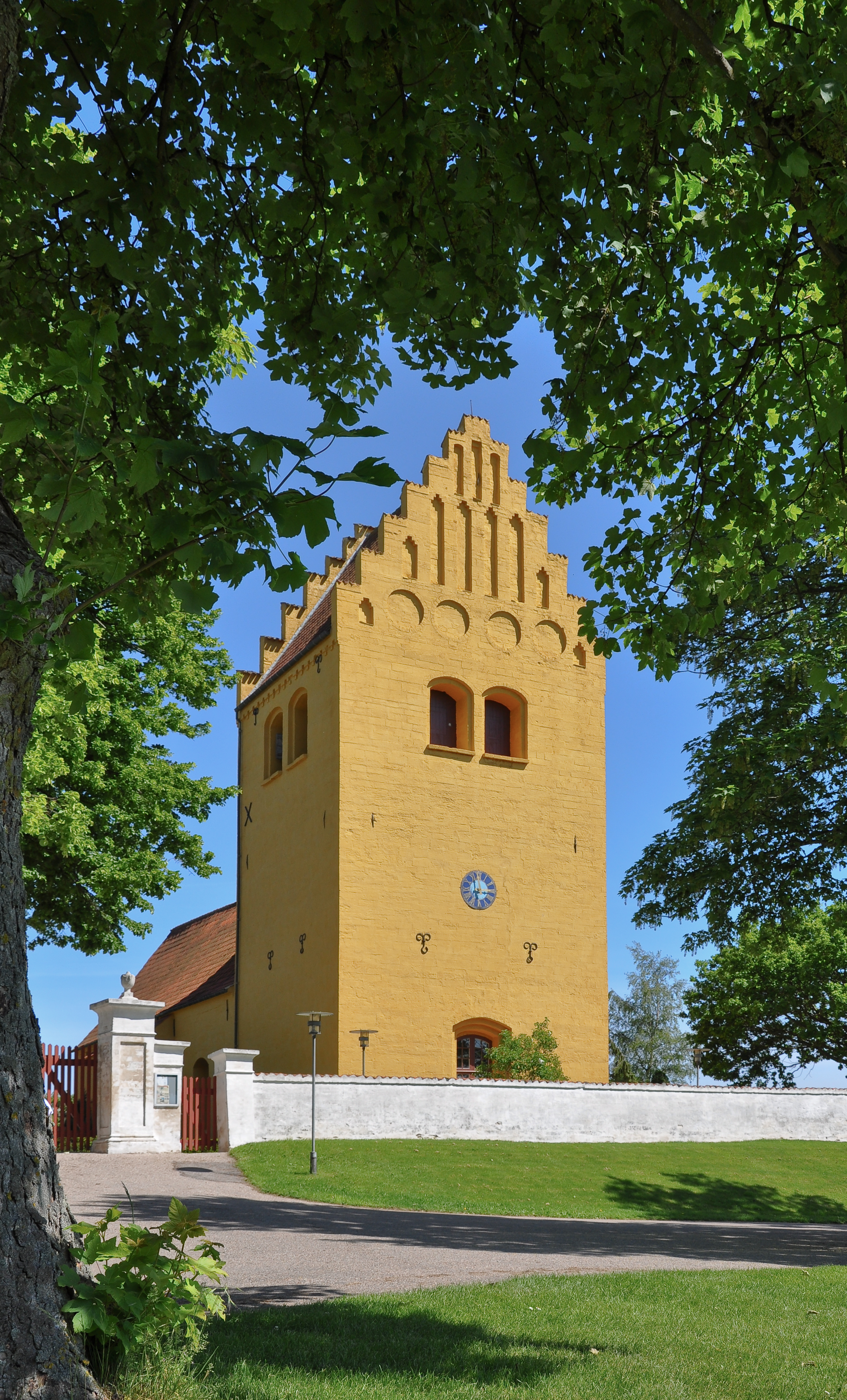 Holtug Church in Stevns Municipality, Denmark.